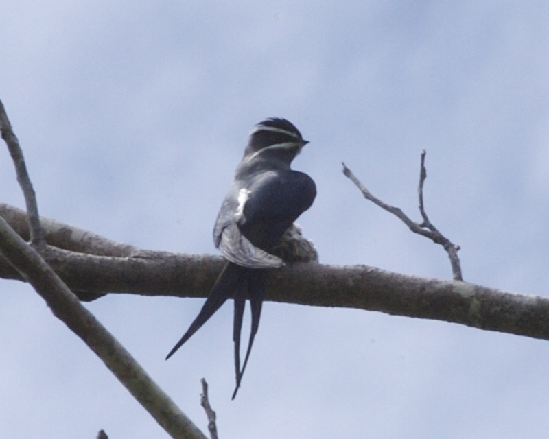 Moustached Treeswift Hemiprocne mystacea mystacea, Biak, Papua (Irian Jaya), Indonesia, 15 January 2008